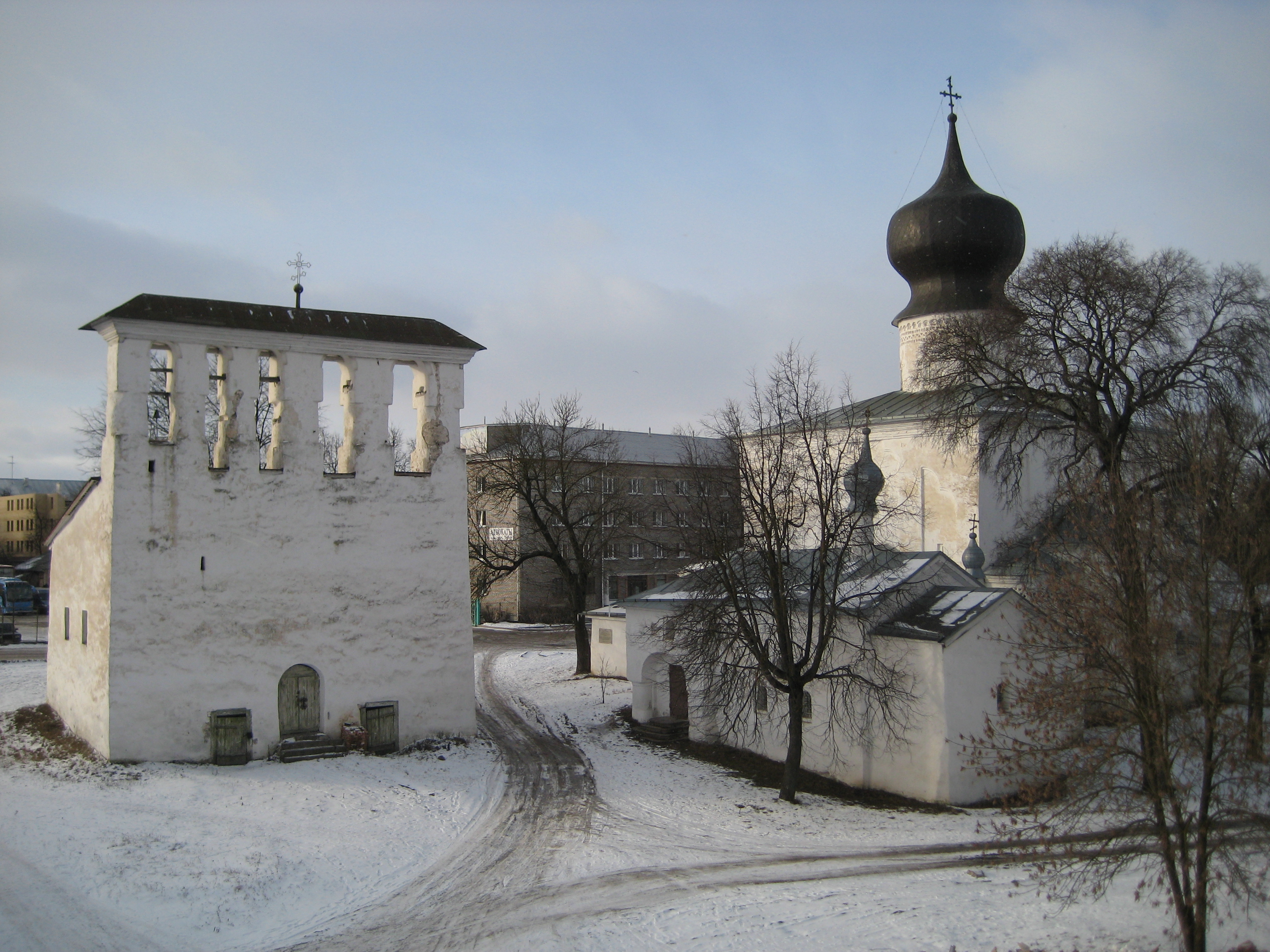 Церковь Успения с Парома. Church of Dormition "s Paroma" (at Ferry). Pskov